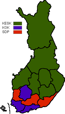 Finnish parliamentary election, 2007, results by constituencies